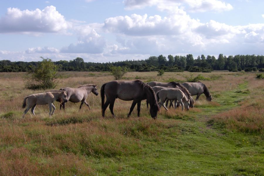 Heck horses.